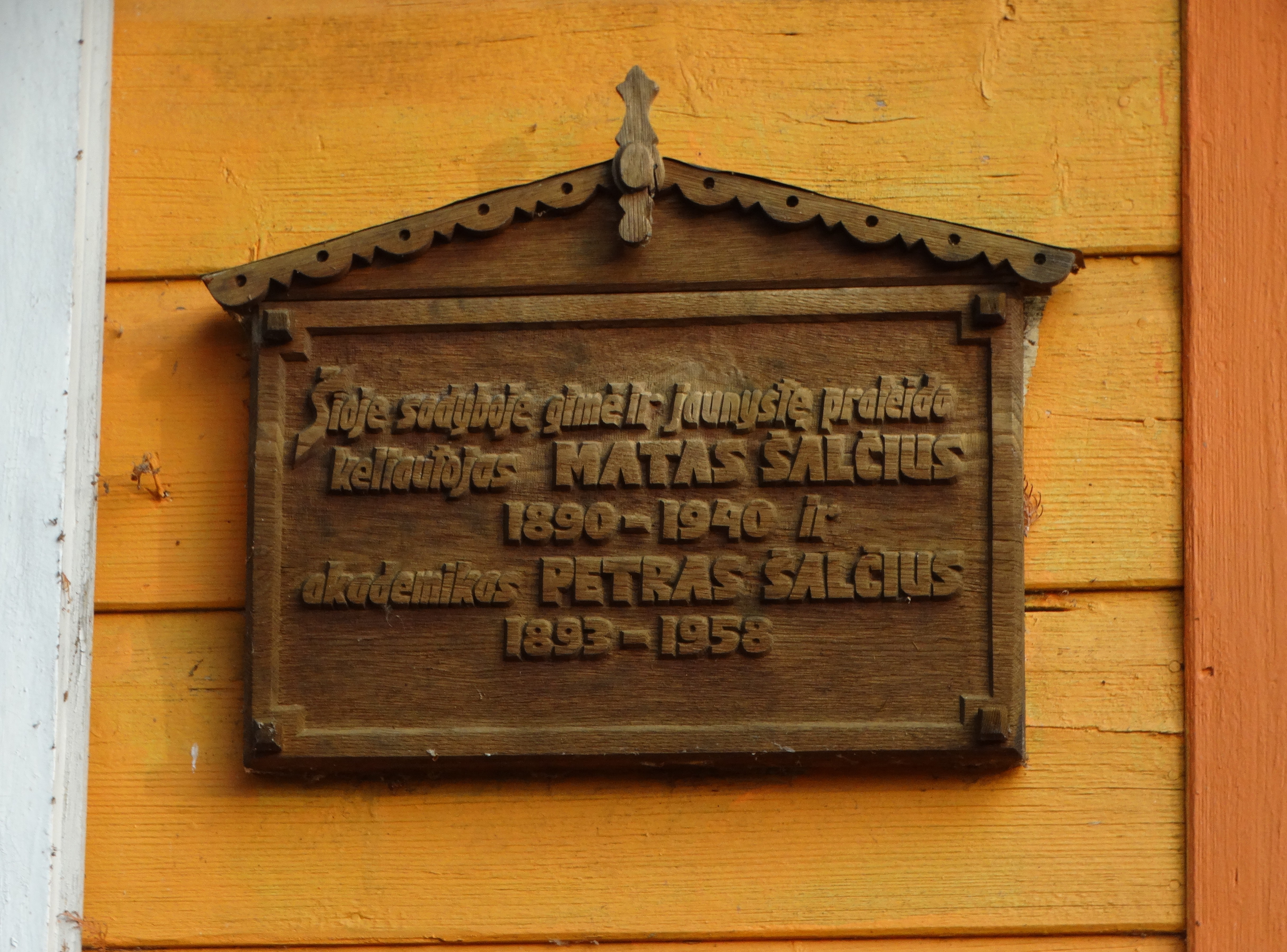 Memorial plaque to Matas and Petras Šalčius, Čiudiškiai, Prienai district, Lithuania